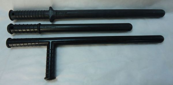 палка резиновая